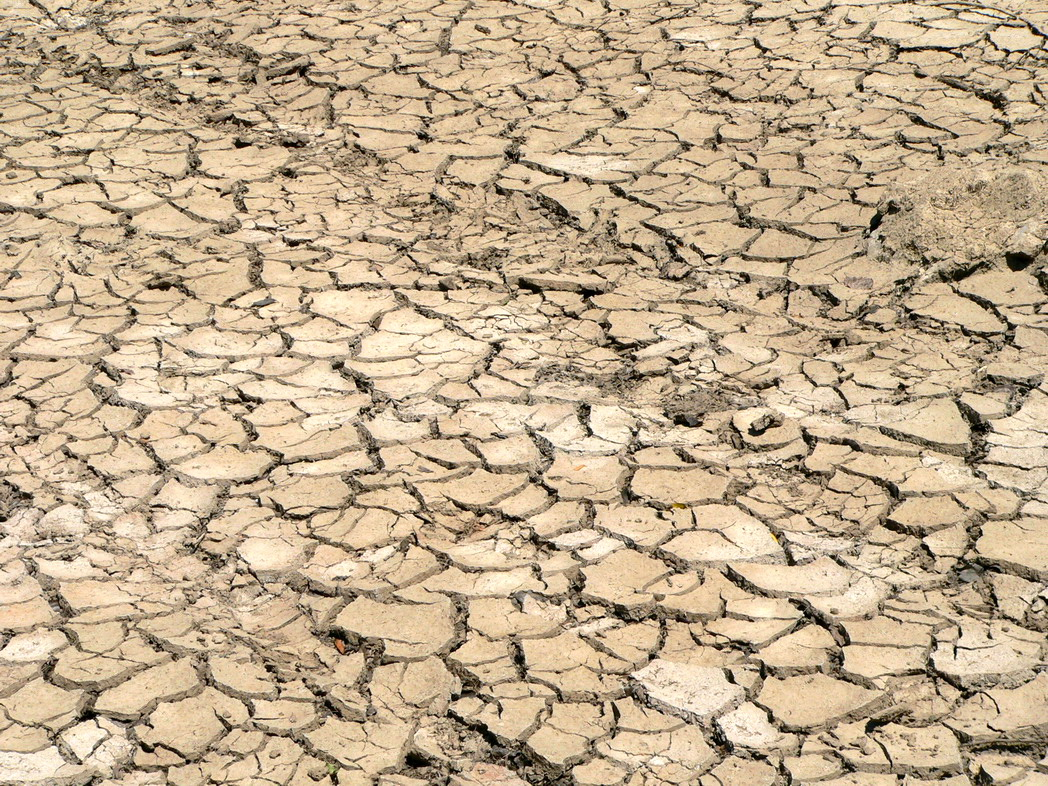 Dry River Bed